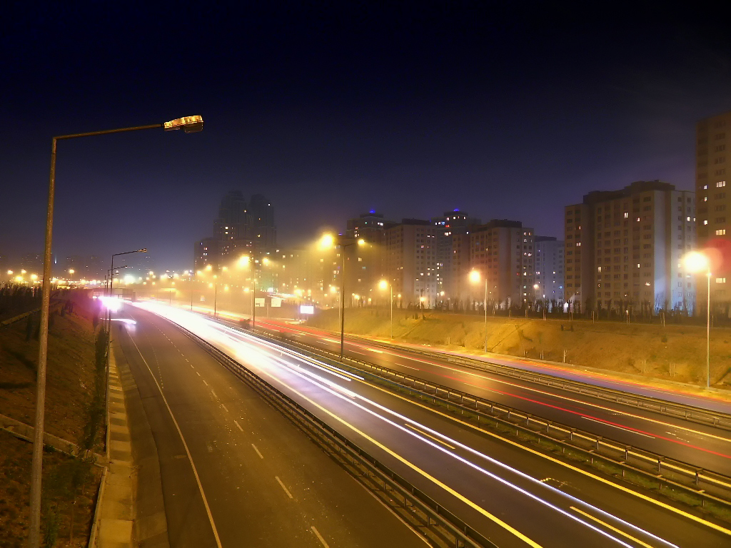 Trans European Motorway (TEM) 80, Istanbul sectionTürkçe: TEM otoyolu